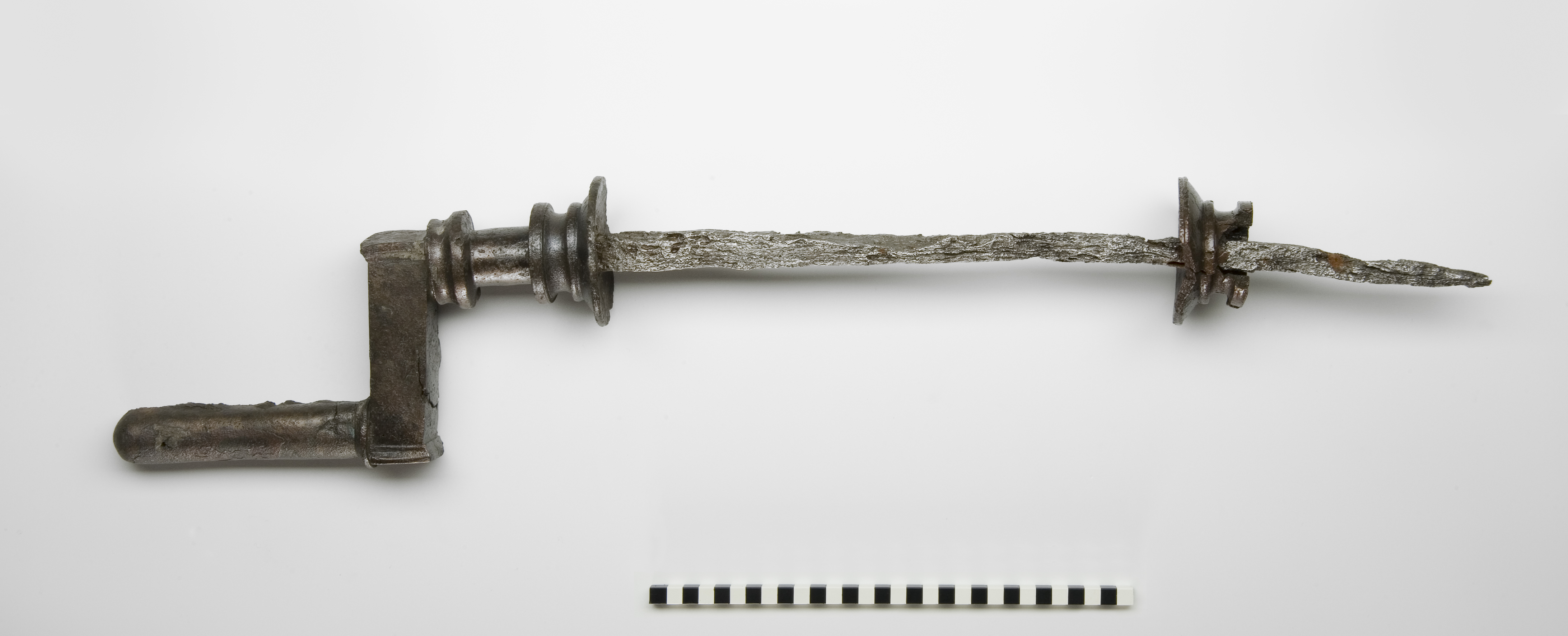 Ancient Roman iron crank from Augusta Raurica, Switzerland. The 82.5 cm long piece with a 15 cm long handle is of yet unknown purpose and dates to no later than ca. 250 AD.[1] Current location: Museum Augusta Raurica, Inv.-No. 1962.7849